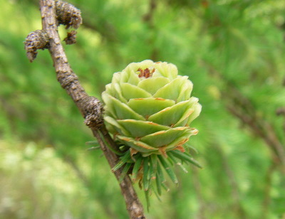 A cone of Dahurian Larch (Larix_gmelinii). Taihaku ward, Sendai, Miyagi prfecture, Japan.